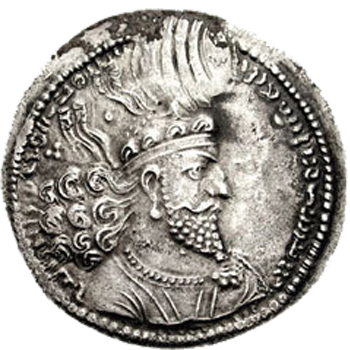 Hormizd I's Coin